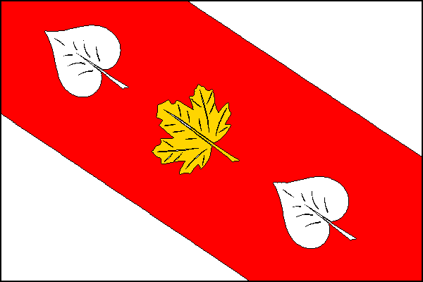 Municipal flag of Dobřejovice , District Prague East, Czech Republic